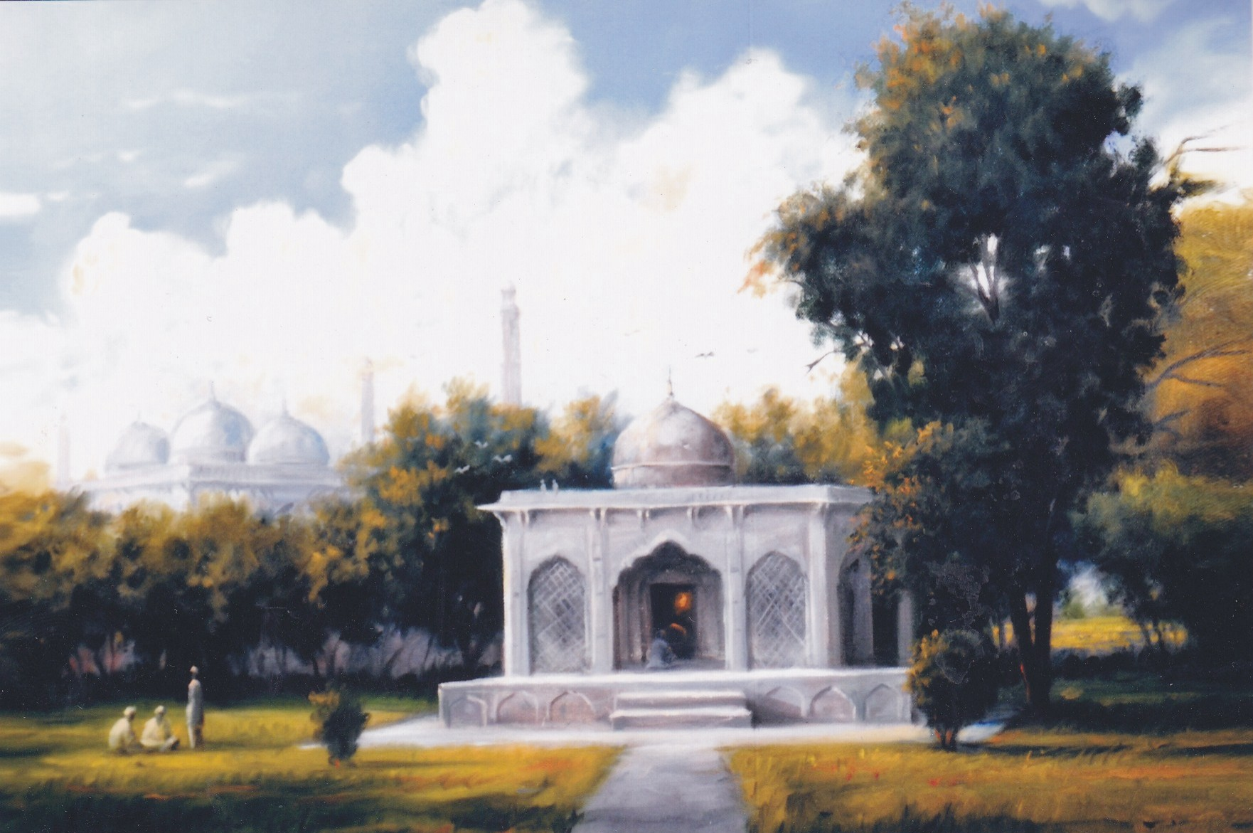 painting depicting the tomb of Razia Sultana in Kaithal during the 19th century